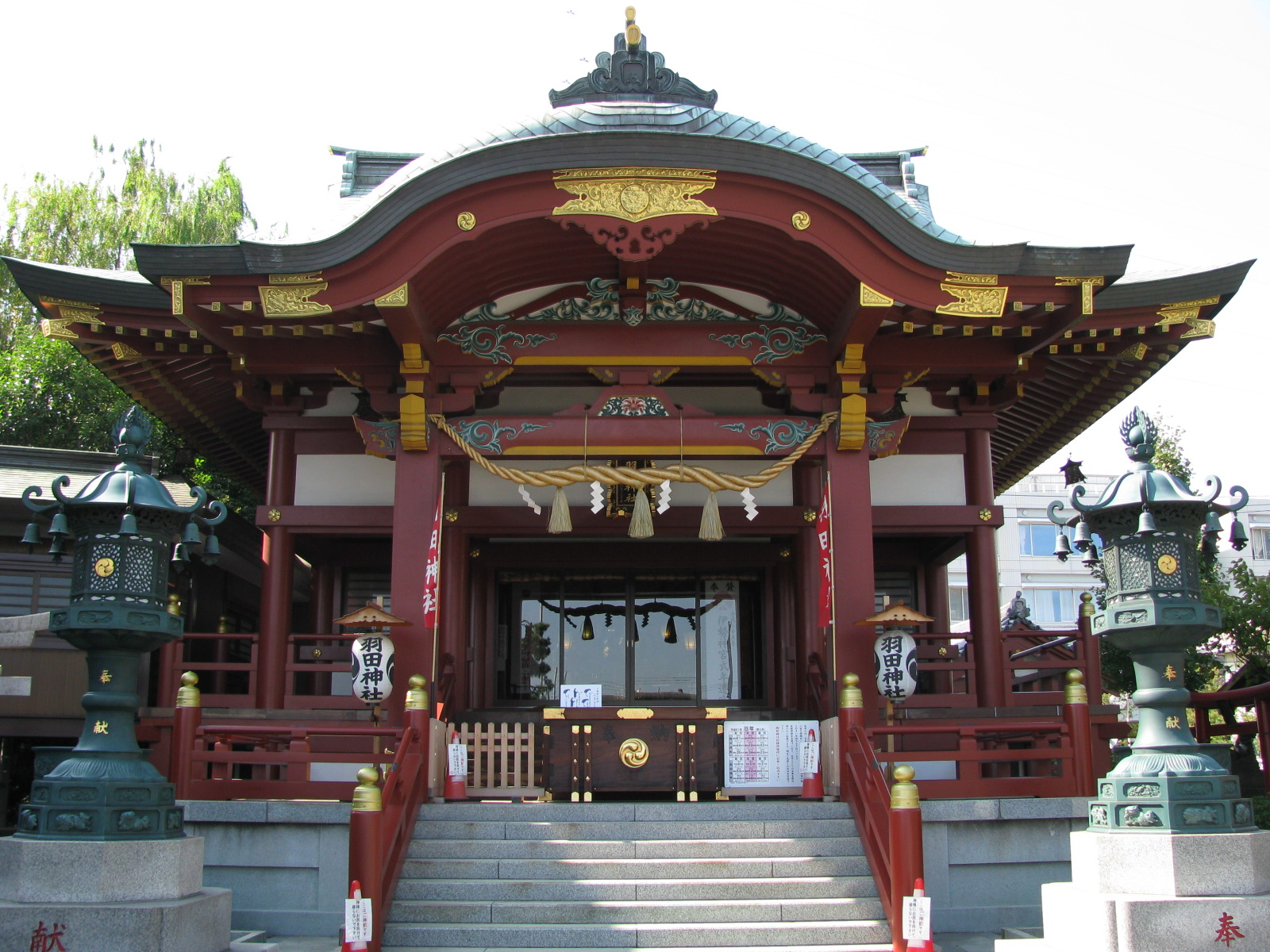 Haneda-jinjya(Haneda shrine) is located in Ota, Tokyo, Japan.